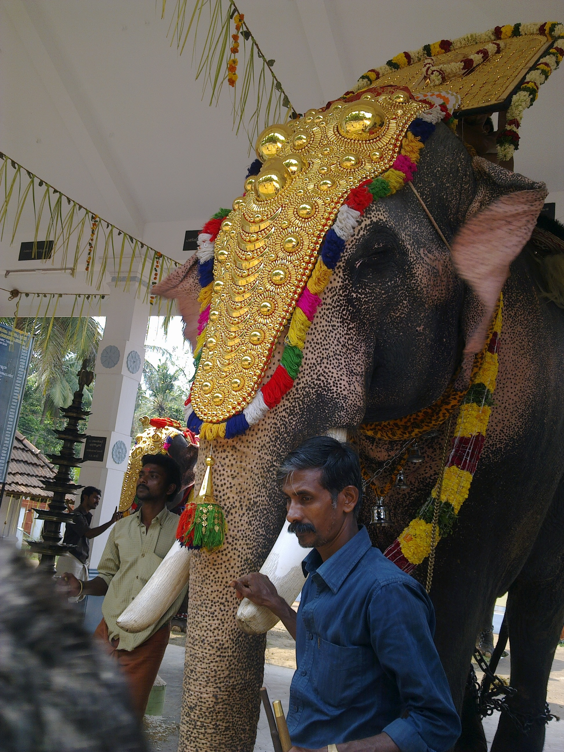 Thechikottukavu_Ramachandran @ SreeRama Navami 2011 (Ramanchira temple, Thrissur)